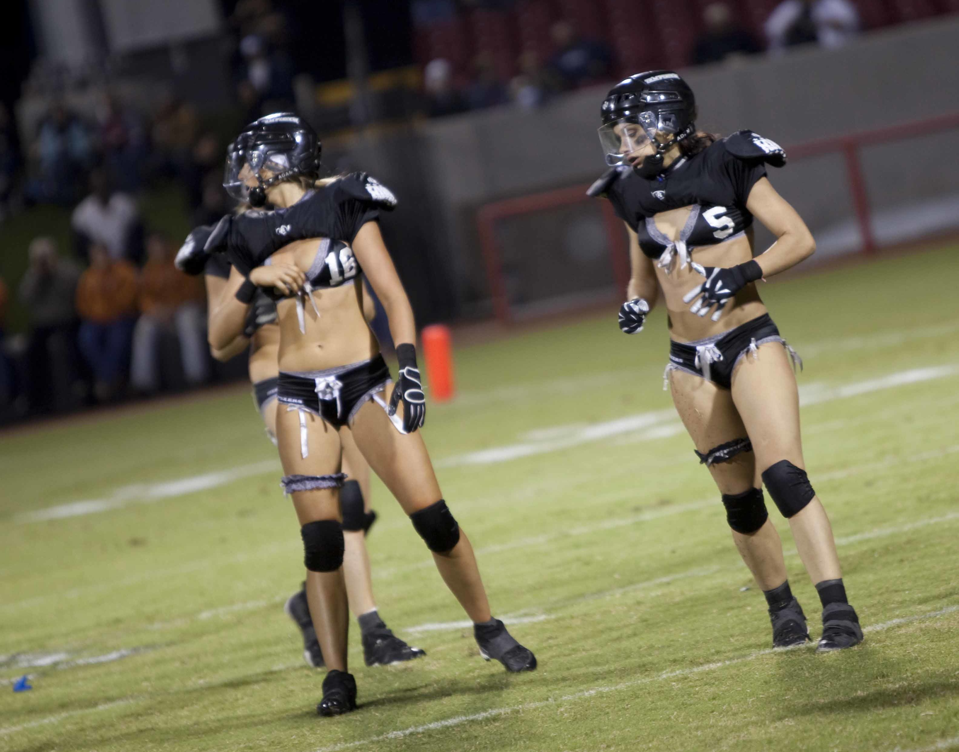 This photo was taken at the Lingerie Football League's game on Friday October 23, 2009 in Grand Prairie, Texas between the Dallas Desire and the San Diego Seduction.